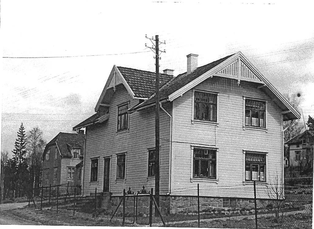 Picture of Kollen Laererbolig, Oppegaard County, Norway